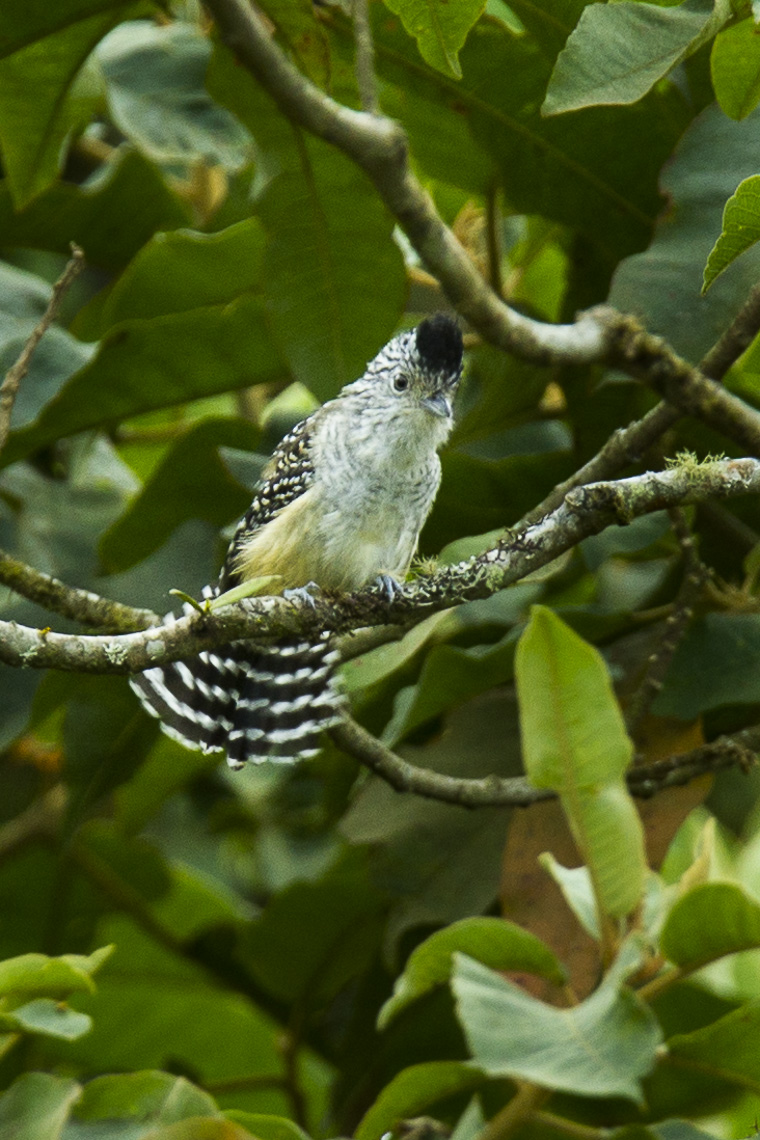 Chapman's antshrike (Thamnophilus zarumae)- South Ecuador_S4E9926